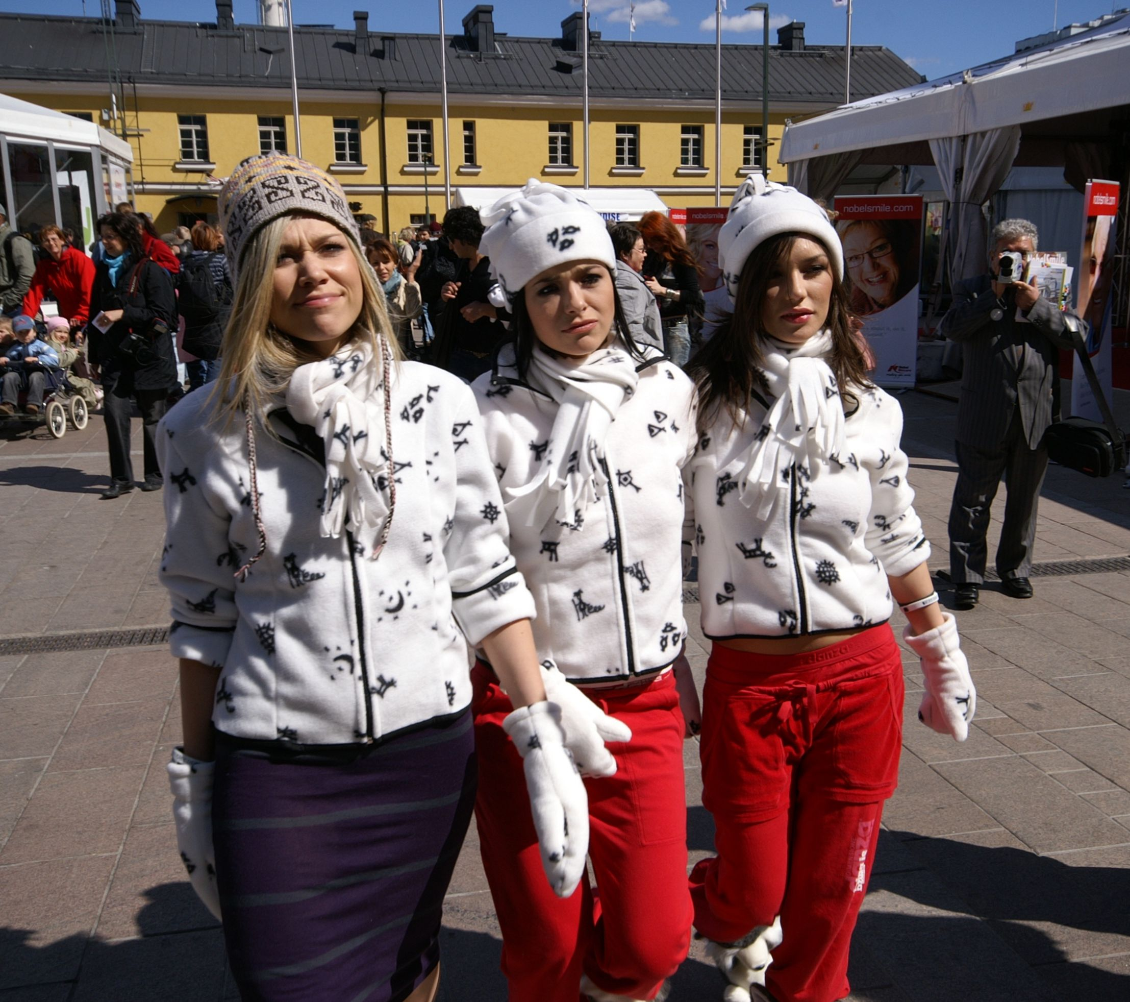 Russian girlgroup Serebro during the Eurovision Song Contest Week in Helsinki. left to right: Marina Lizorkina, Elena Temnikova and Olga Seryabkina